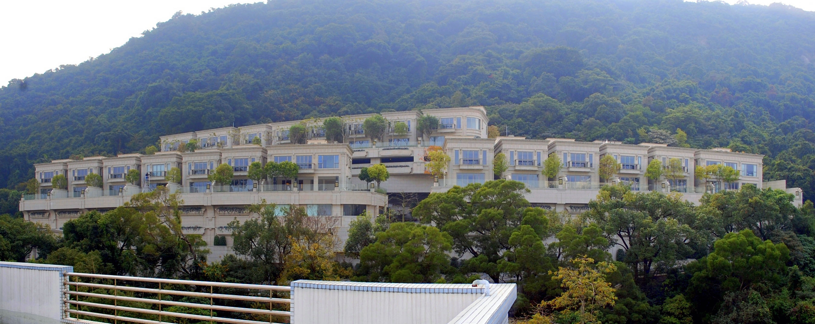 A panorama of the De Yucca housing estate, Sha Tin district, Hong Kong.